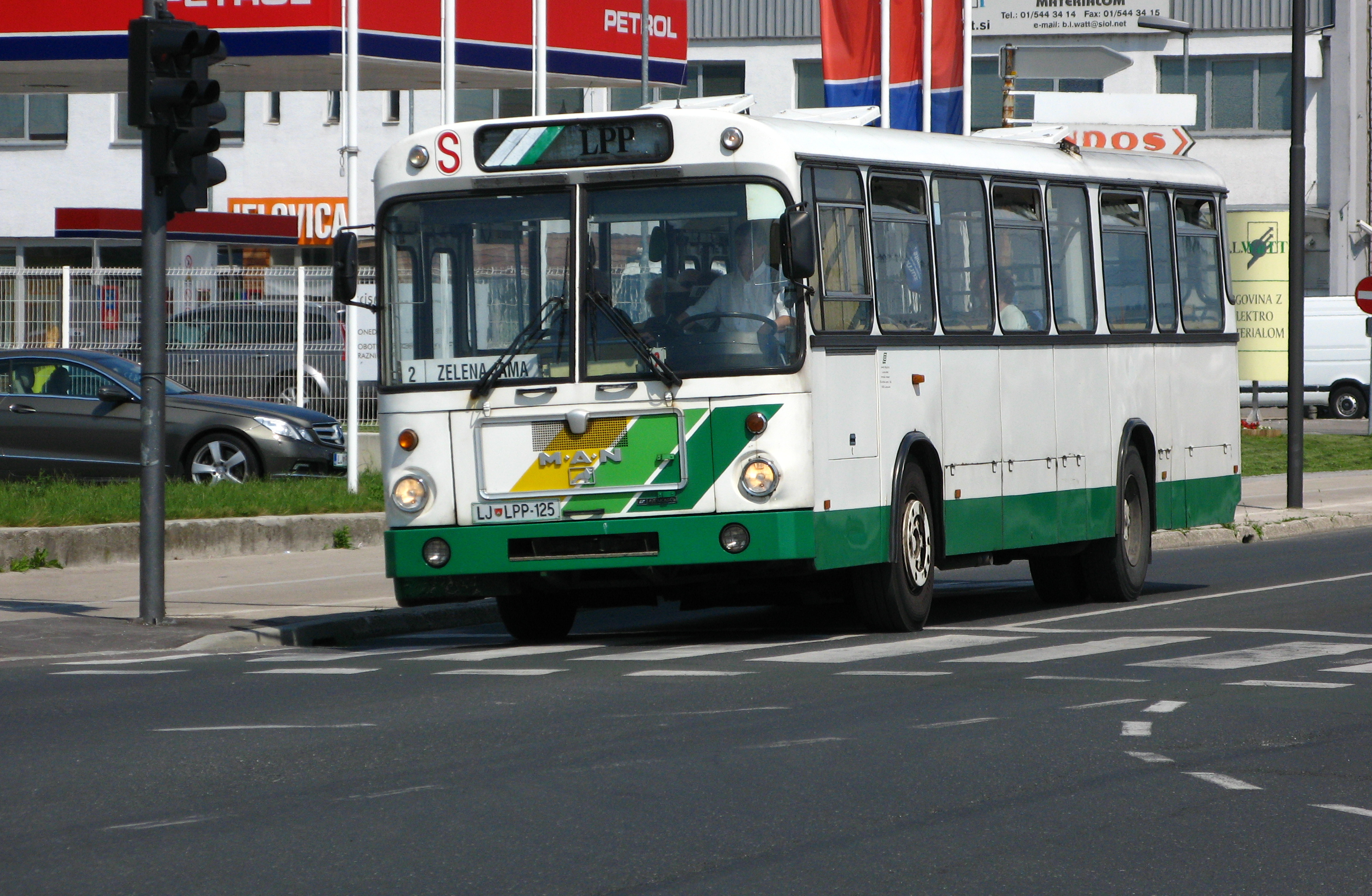 Ljubljana citybus, Slovenia.